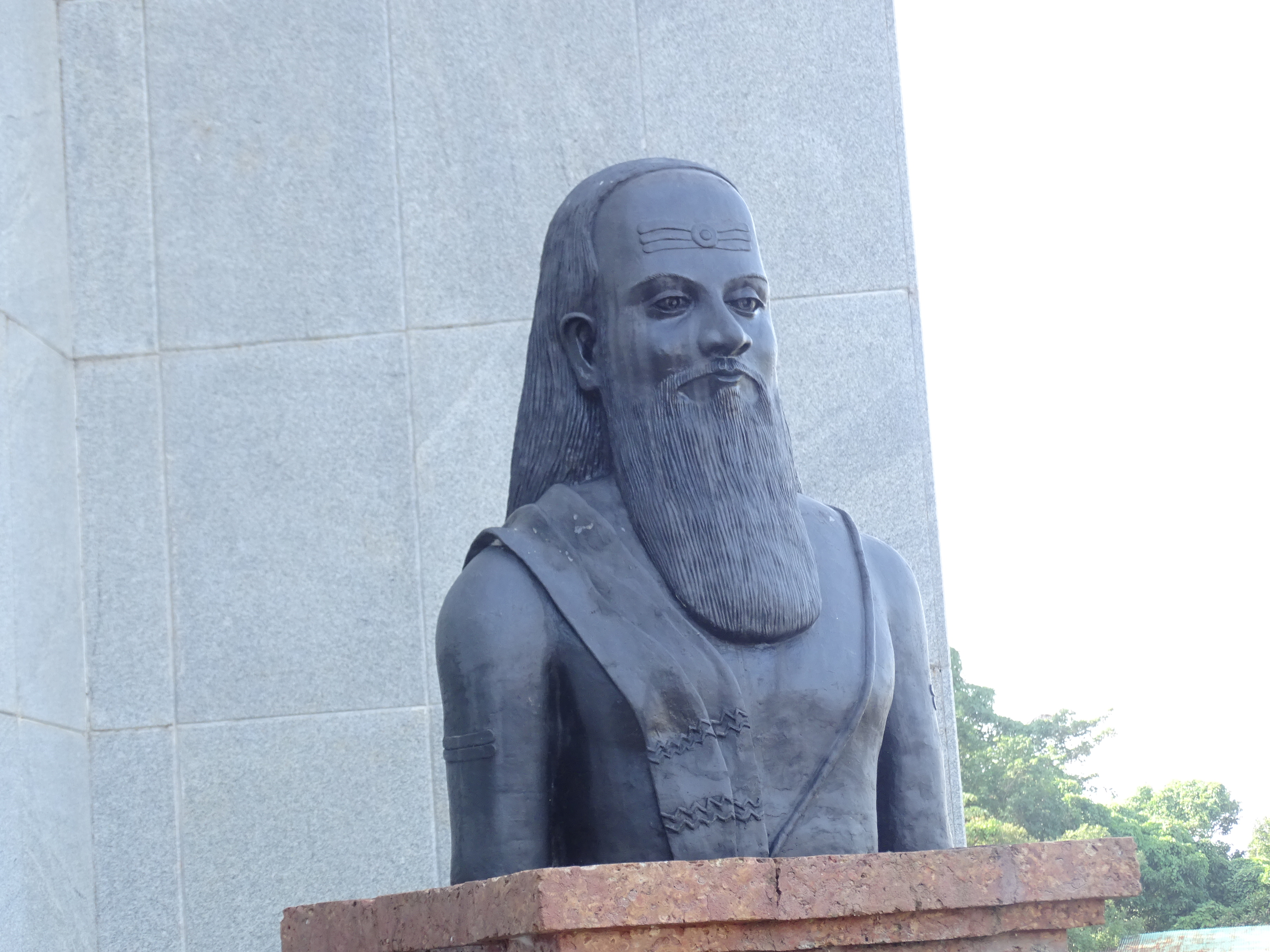 Panini